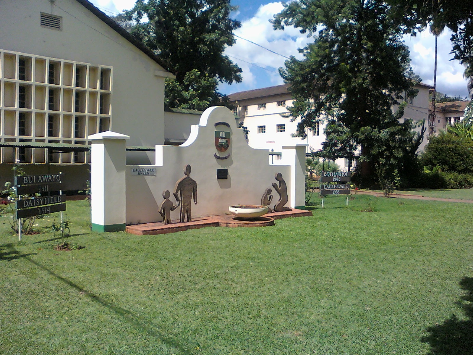 Symbolic of what Eaglesvale stands for, there are dates of the school's previous names and years.